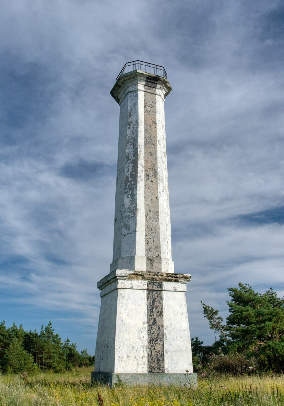 Kihelkonna front daymark